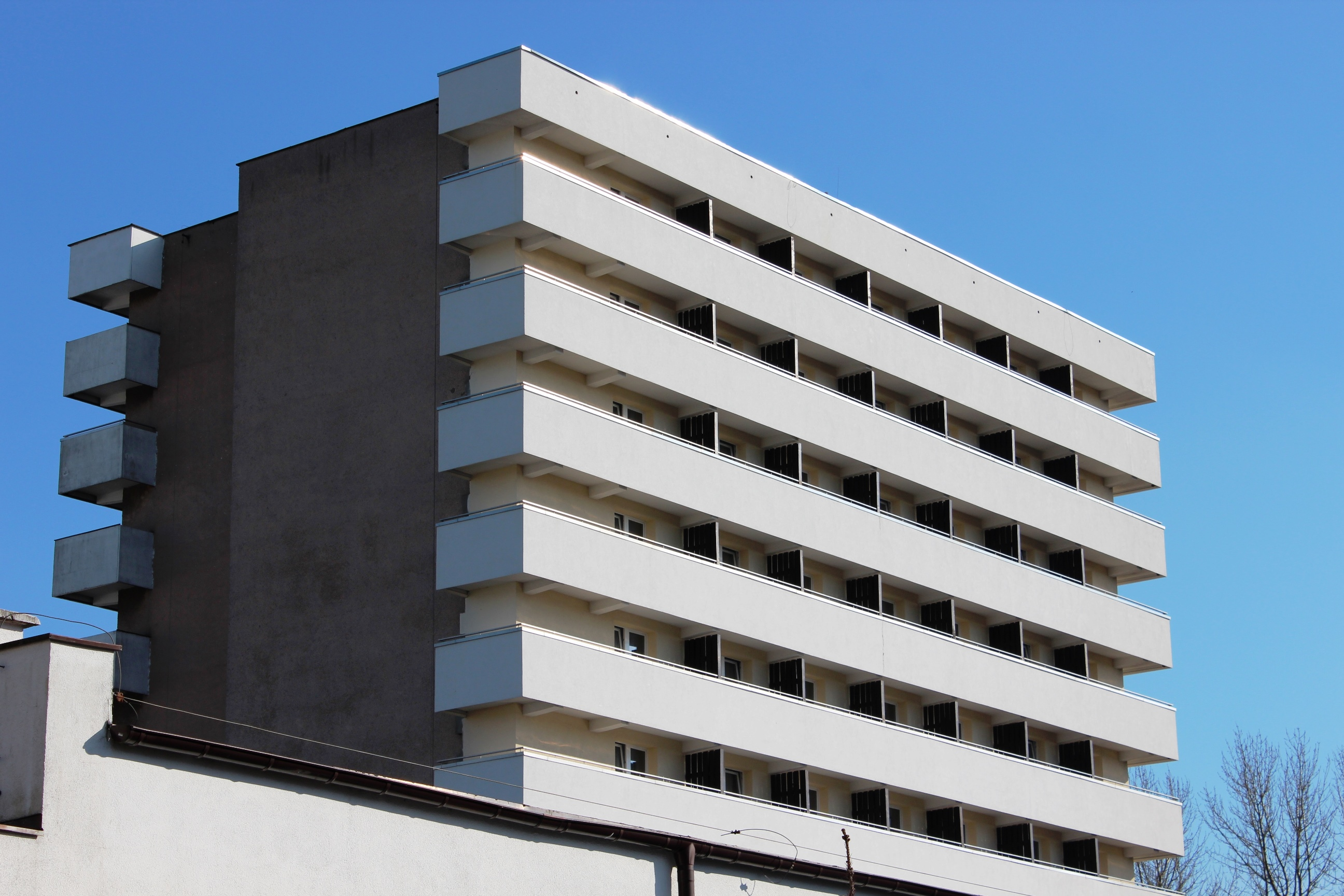 San Sanatorium in Kołobrzeg